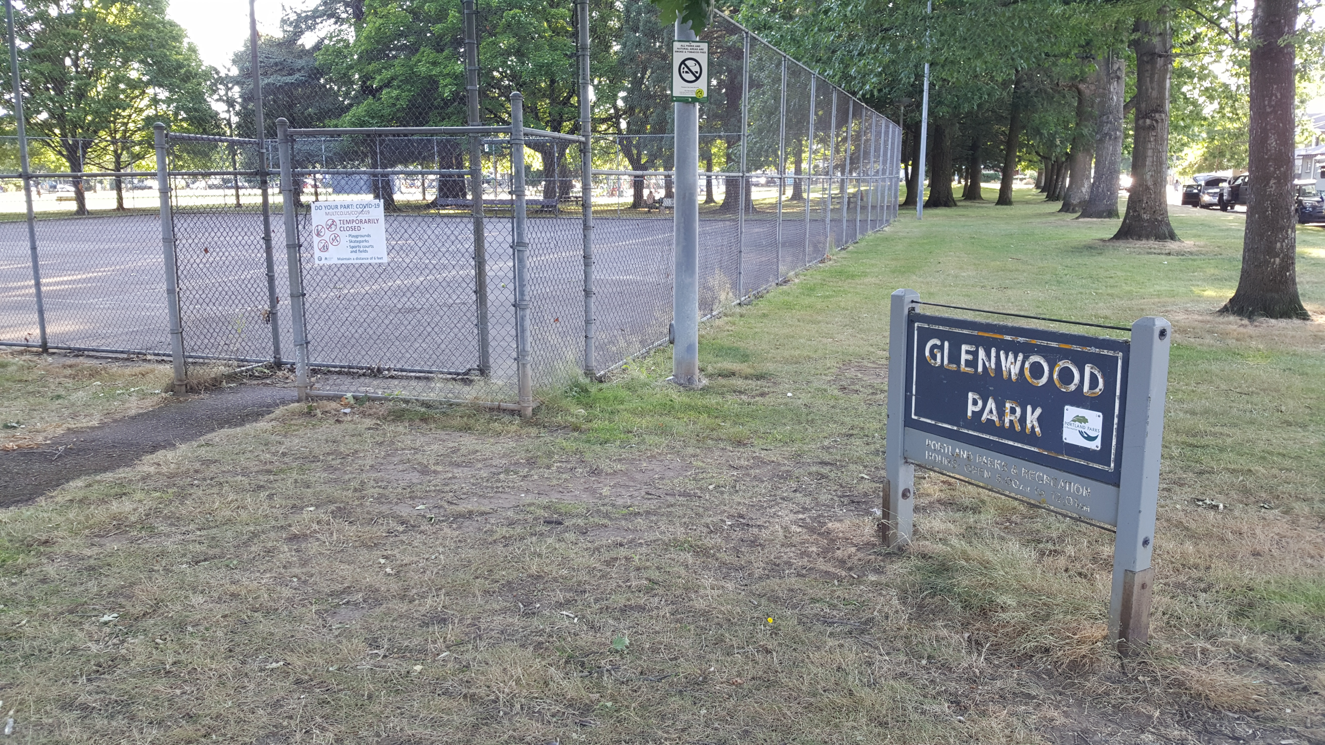 Southeast Portland, Oregon, July 2020